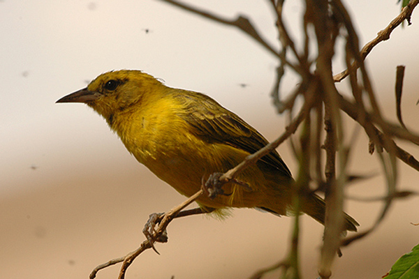 Uganda Slender-billed Weaver (Ploceus pelzelni) Mbweya QE NP Dec 2005